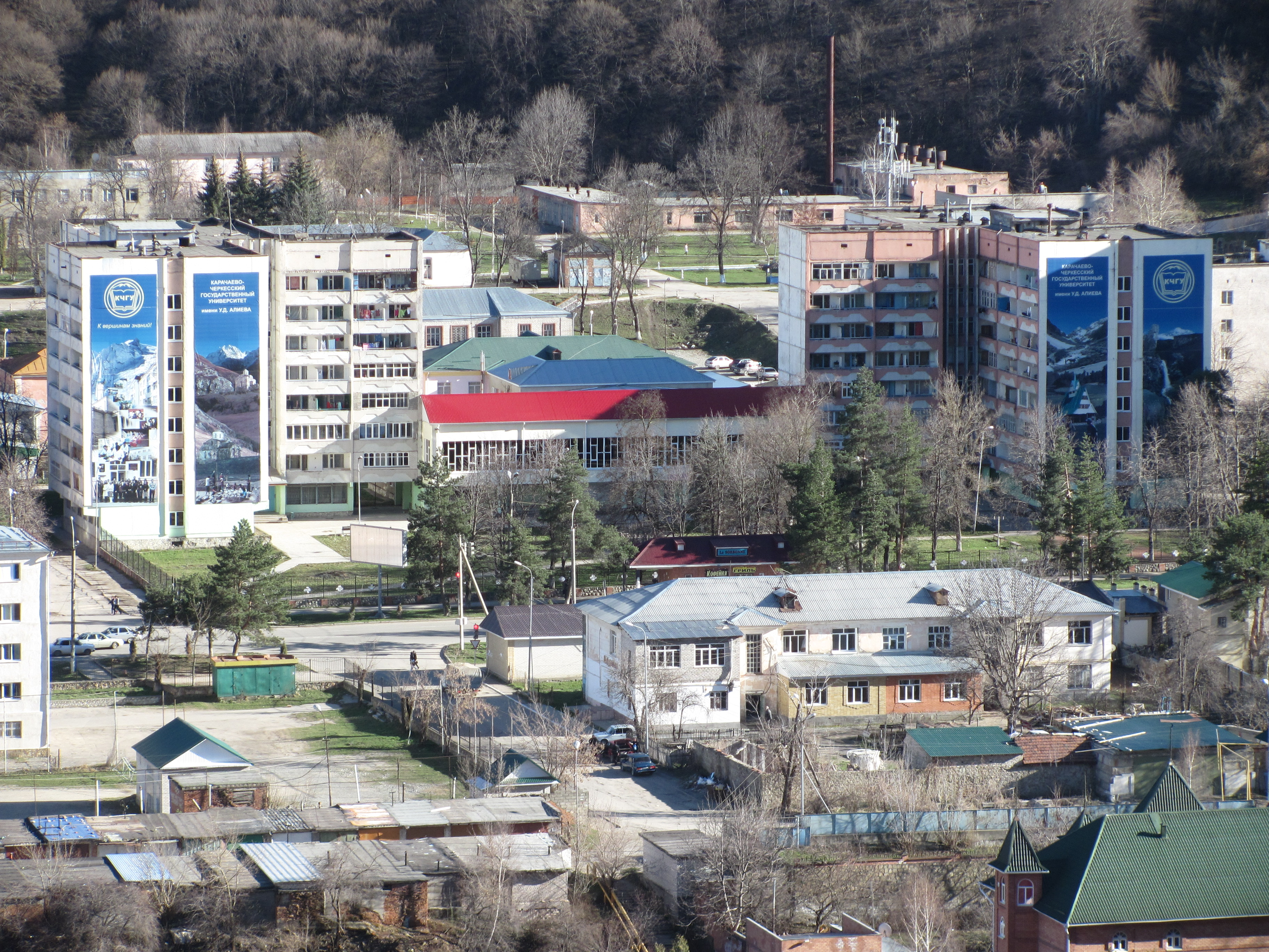 Karachayevsk university campus, Karachay-Cherkessia